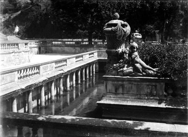 Picture of the Jardins de la Fònt (Gardens of the Fountain) in Nimes (Occitania) by Eugèni Trutat